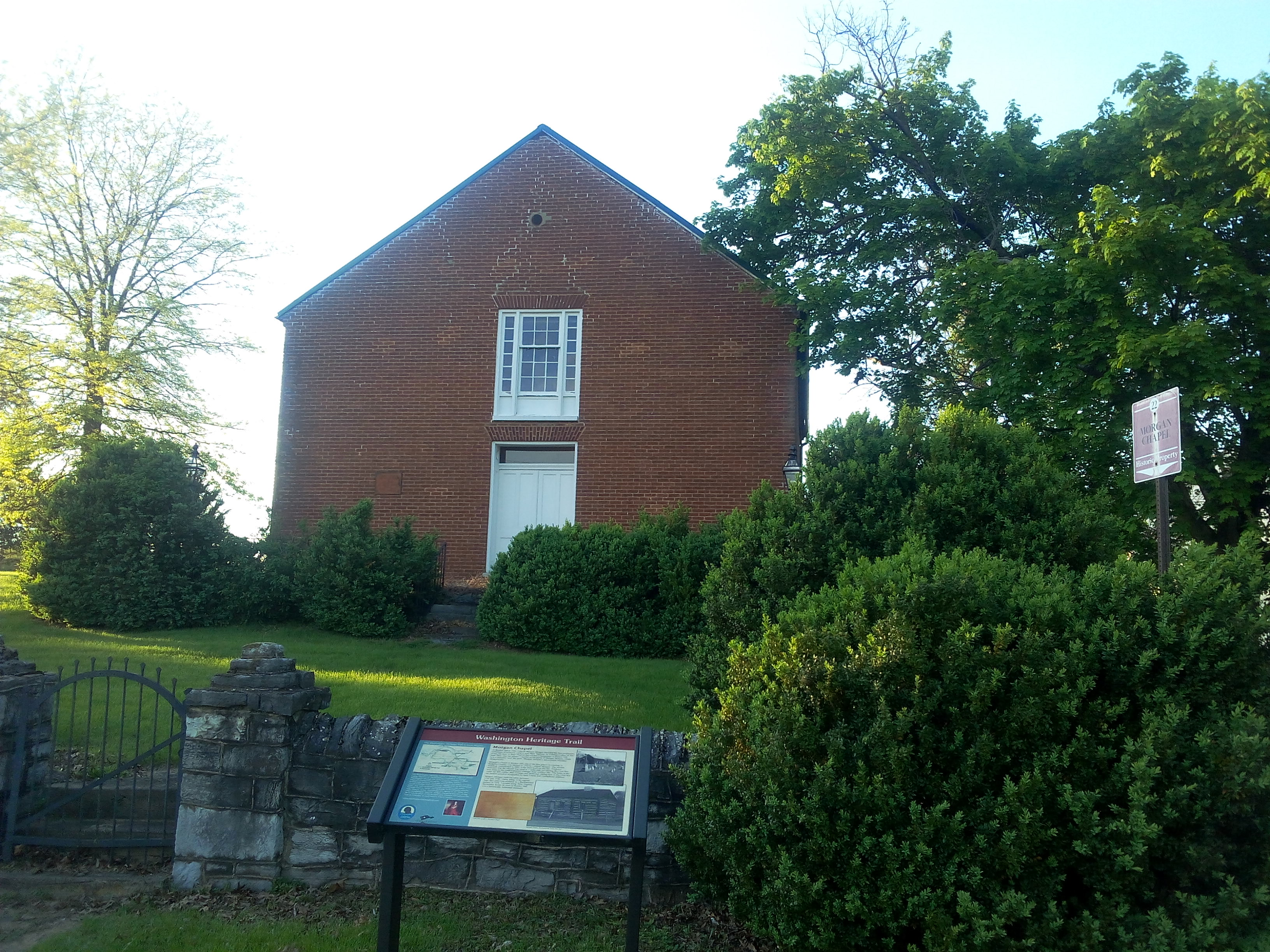 historic morgan chapel outside Bunker Hill, West Virginia Other information also uploading opposite view